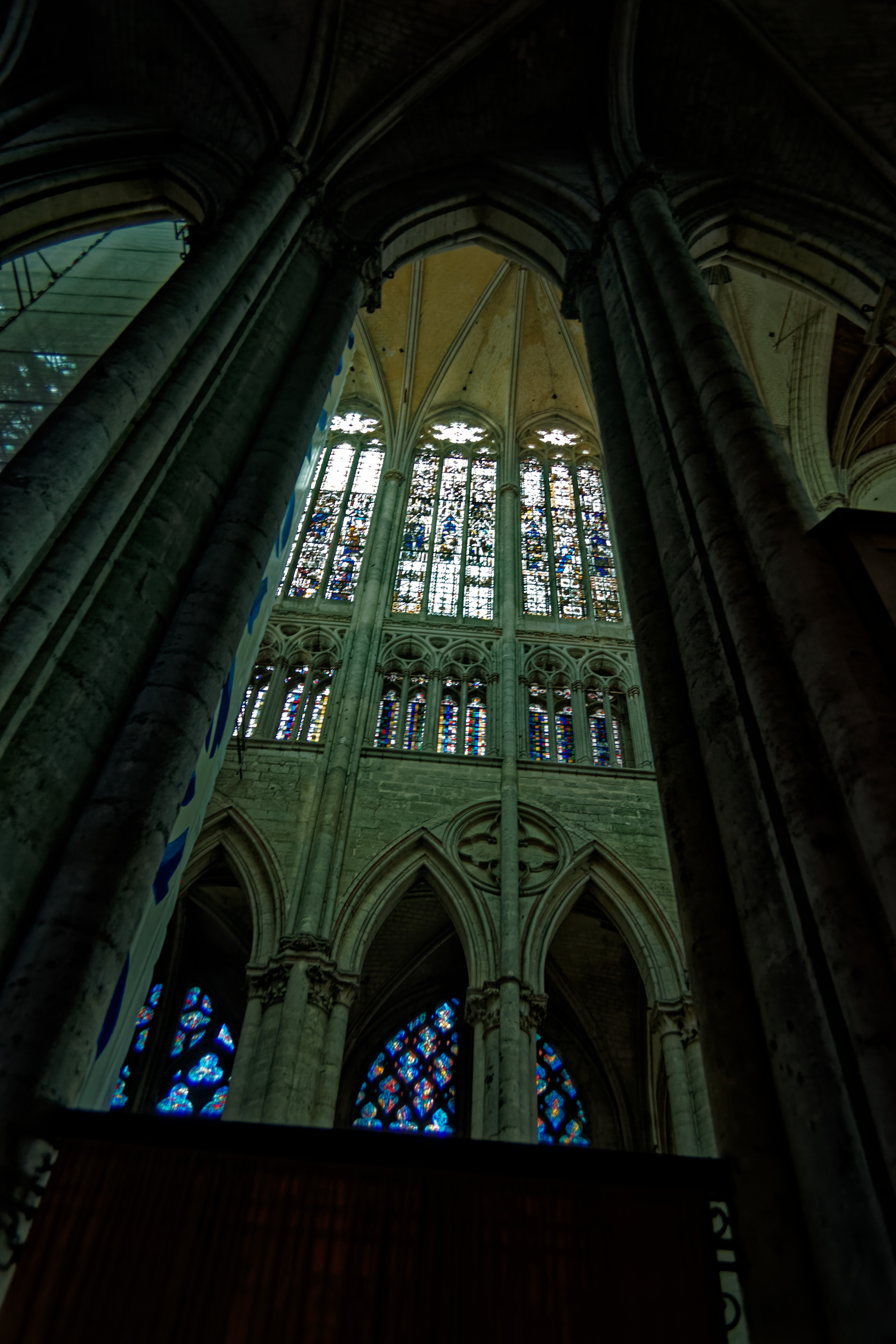 Beauvais - La Cathédrale Saint-Pierre de Beauvais - Ambulatory North of the Choir - View SSW & Up into the Choir 48.5 m